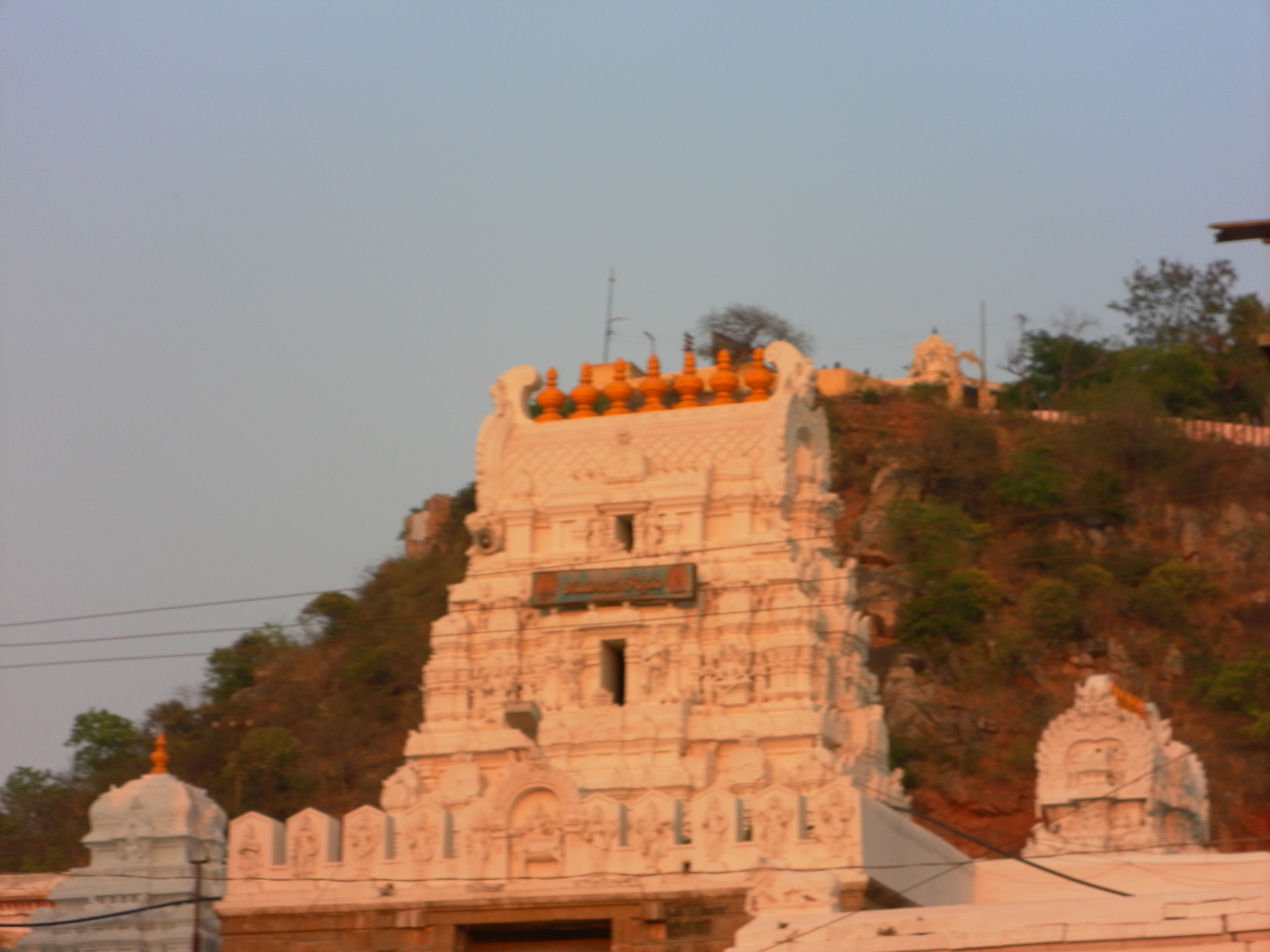 Shri Kala Hasti Temple is located near the Tamil Nadu- Andhra Pradesh border, India.